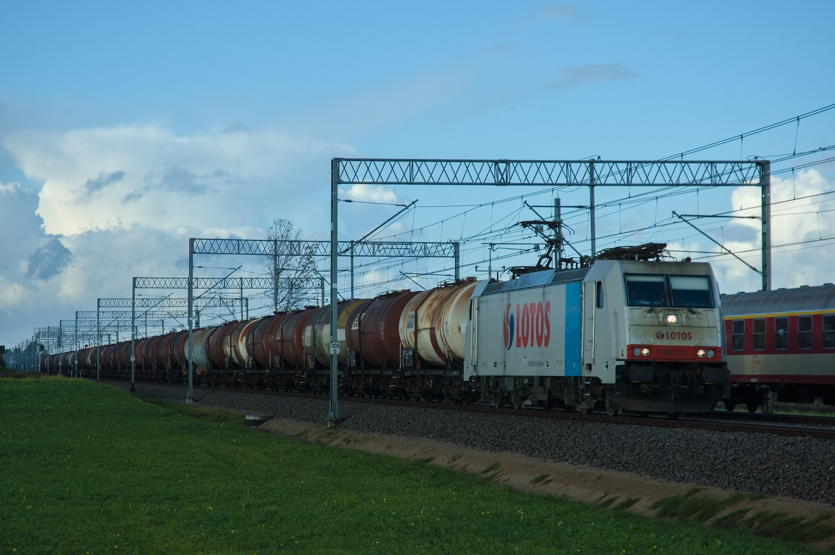 Locomotive 186 137 owned by Railpool, with train of Lotos Kolej railway operator, Skowarcz, Poland